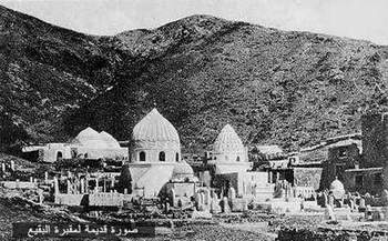 Jannatul Mualla, Mekkah (There is no hills near jannatul Baqi, Medina)